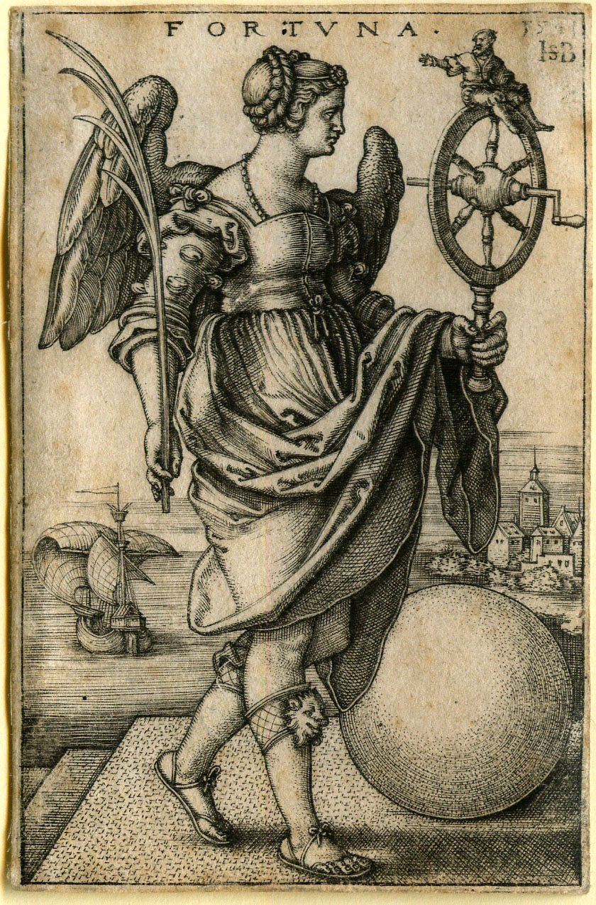 A winged woman holding a palm branch in her right hand and a spinning wheel with a small man perched on top in her left, walks past a globe, while a ship with billowing sails is passing by in the background; allegorical figure representing Fortune; first state of six. A fine impression, the monogram and date under-inked and printing faintly, a small abrasion at top left corner.